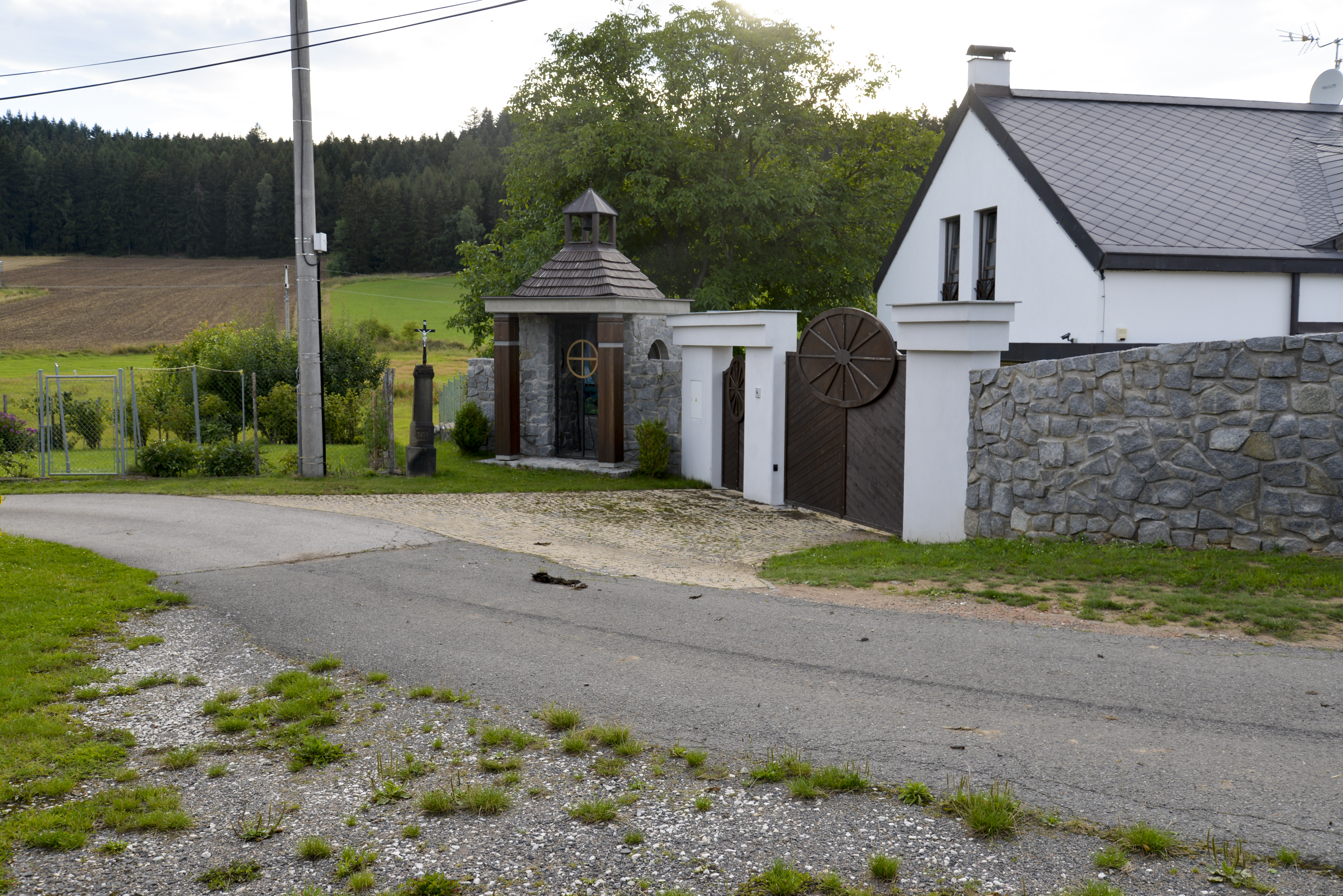 Slavětín - small village, part of Hudčice, in Příbram District, chapel and cross